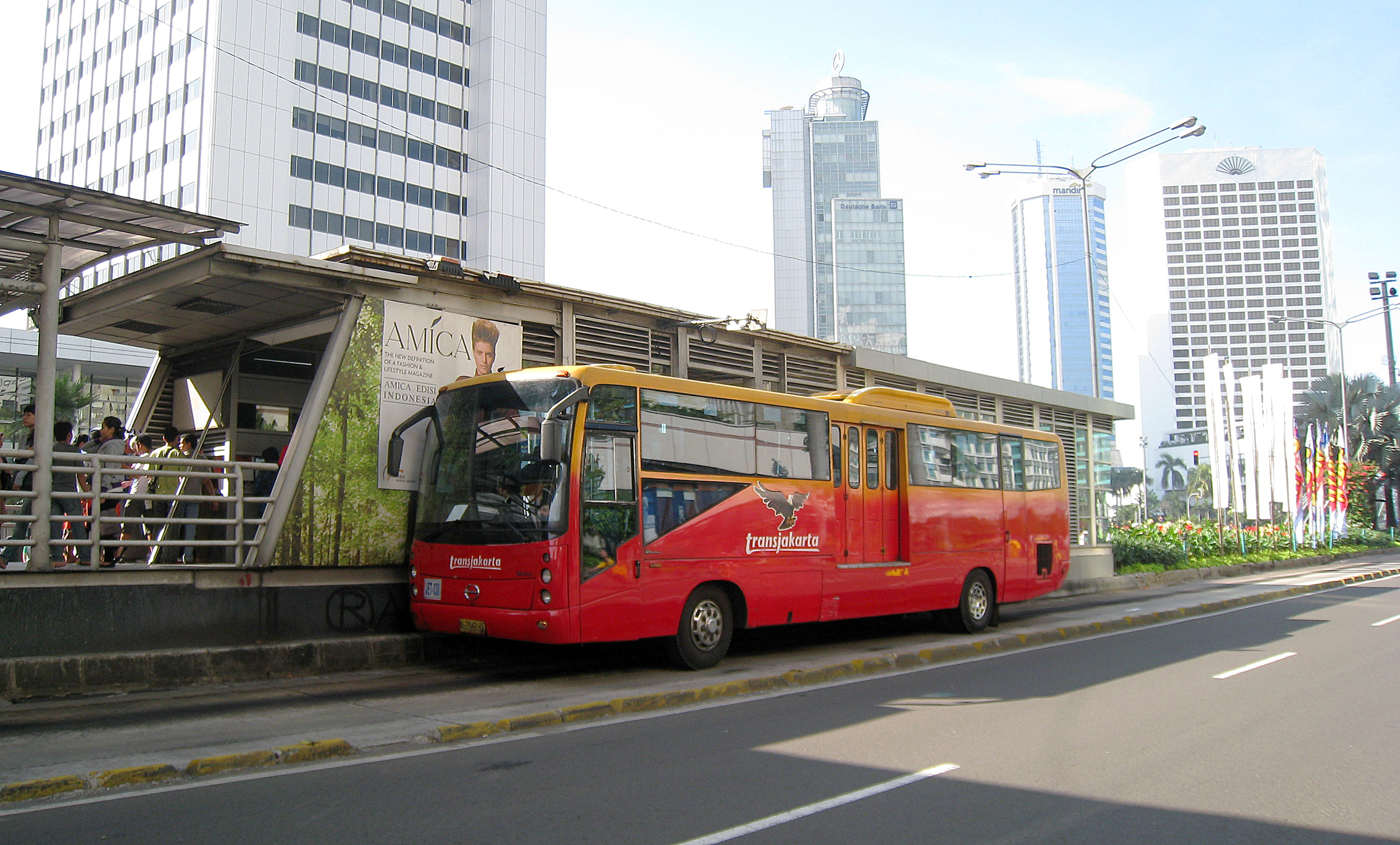 TransJakarta Corridor I bus near "Bundaran Hotel Indonesia".